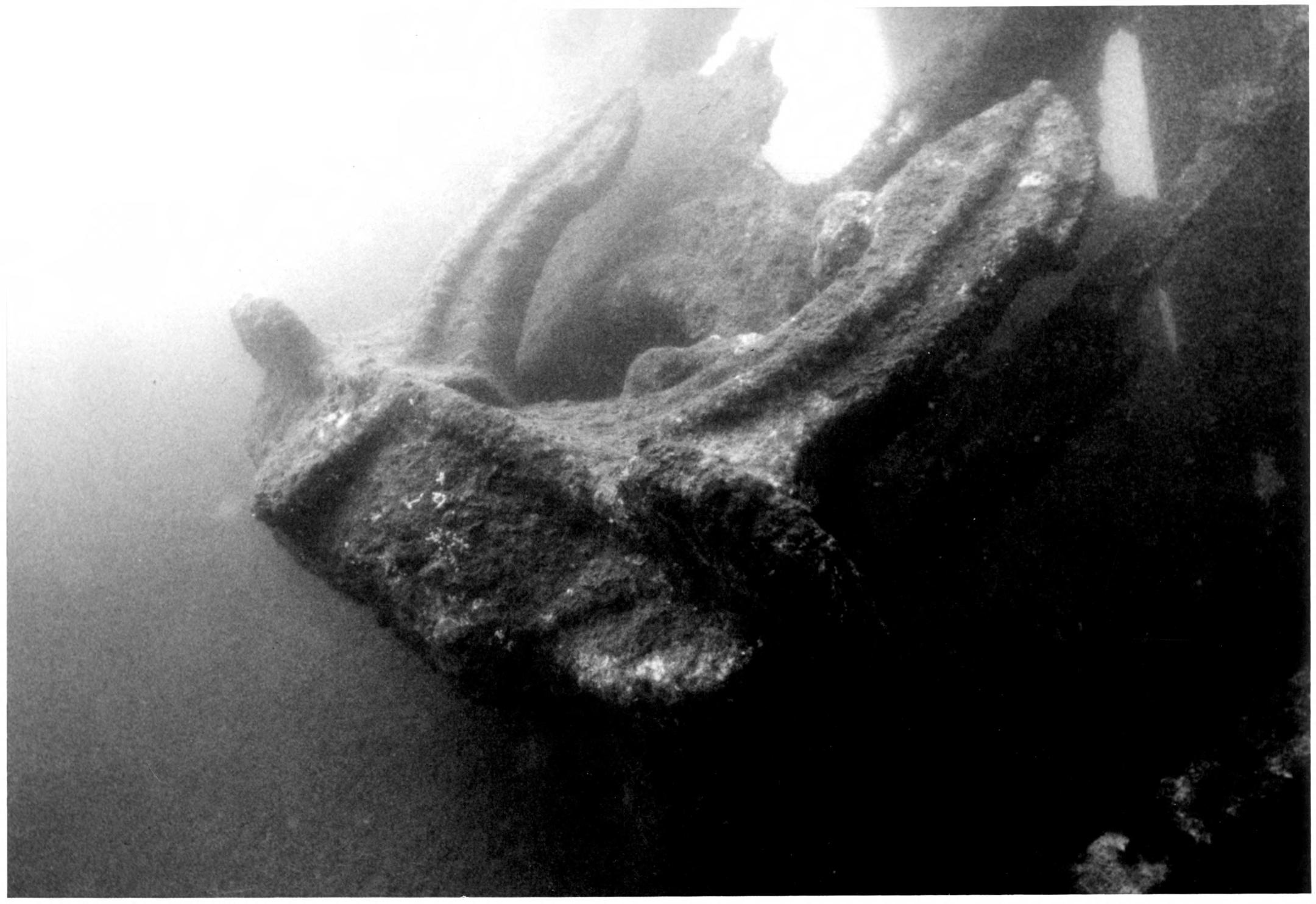 One of the anchors of the wrecked Aratama Maru in Talofofo Bay, Guam.